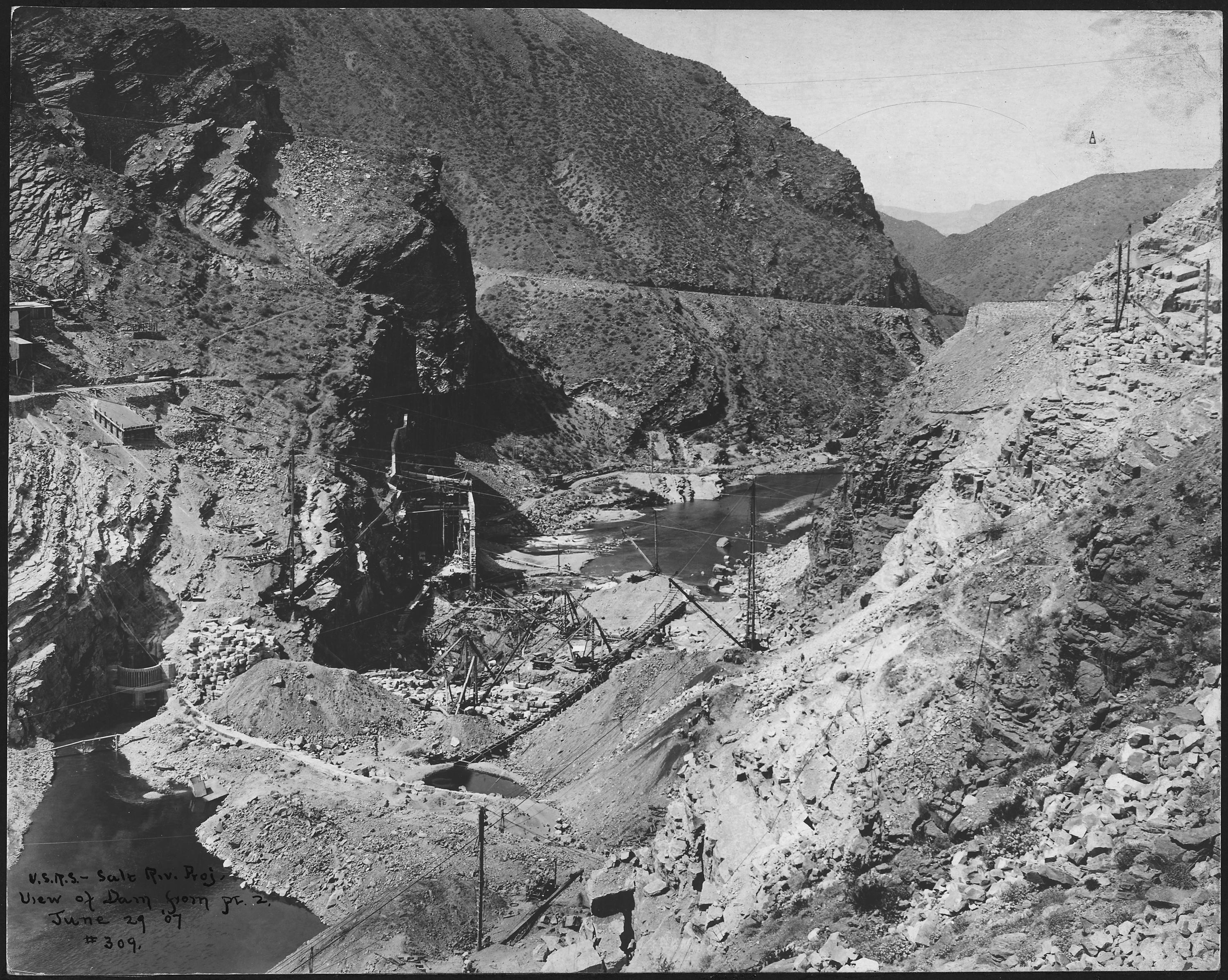 Scope and content: Photograph from Volume One of a series of photo albums documenting the construction of Roosevelt Dam, Stewart Dam, and other related work on the Salt River Project in Arizona.